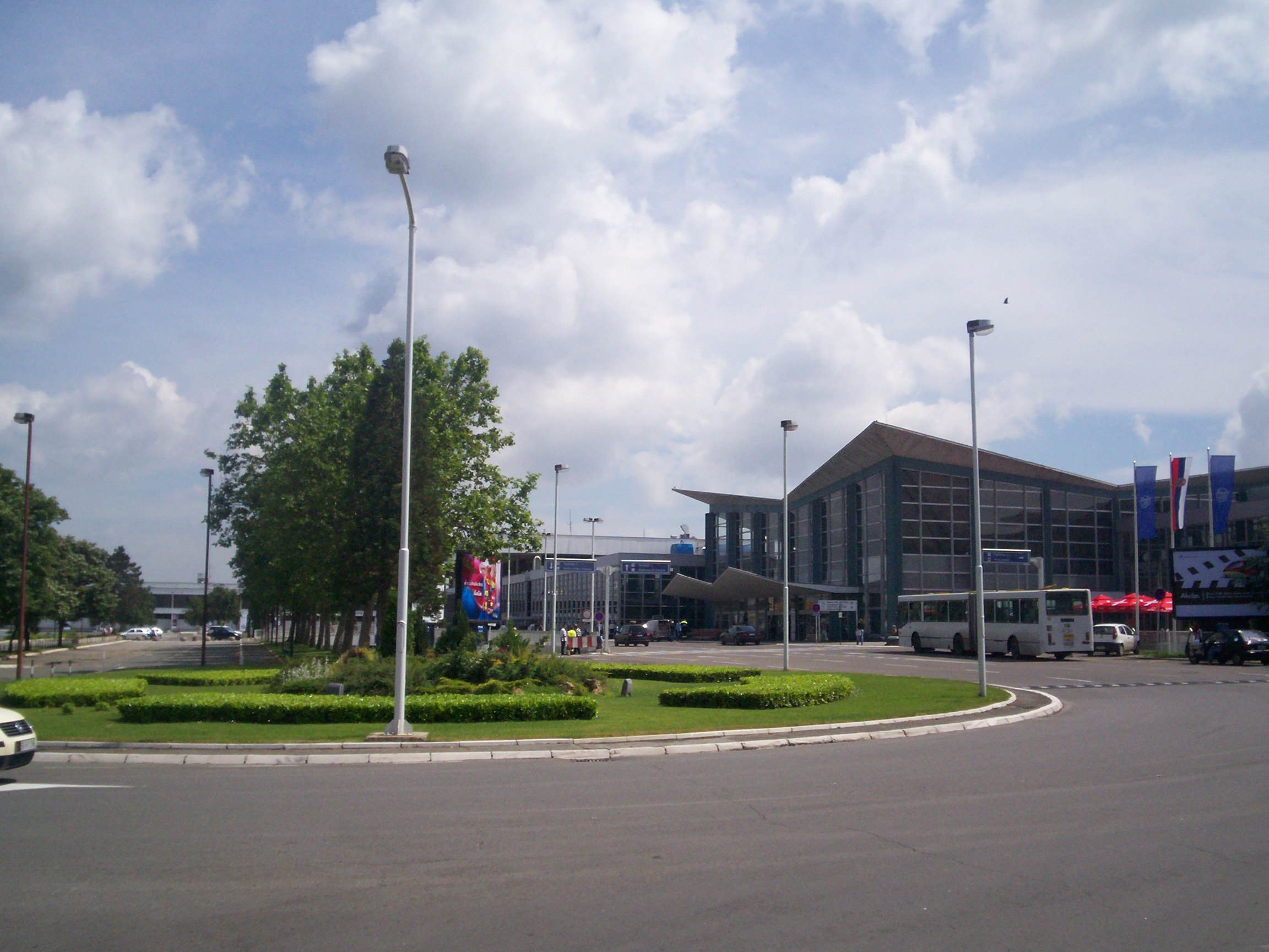 Nikola Tesla airport in Belgrade, Serbia